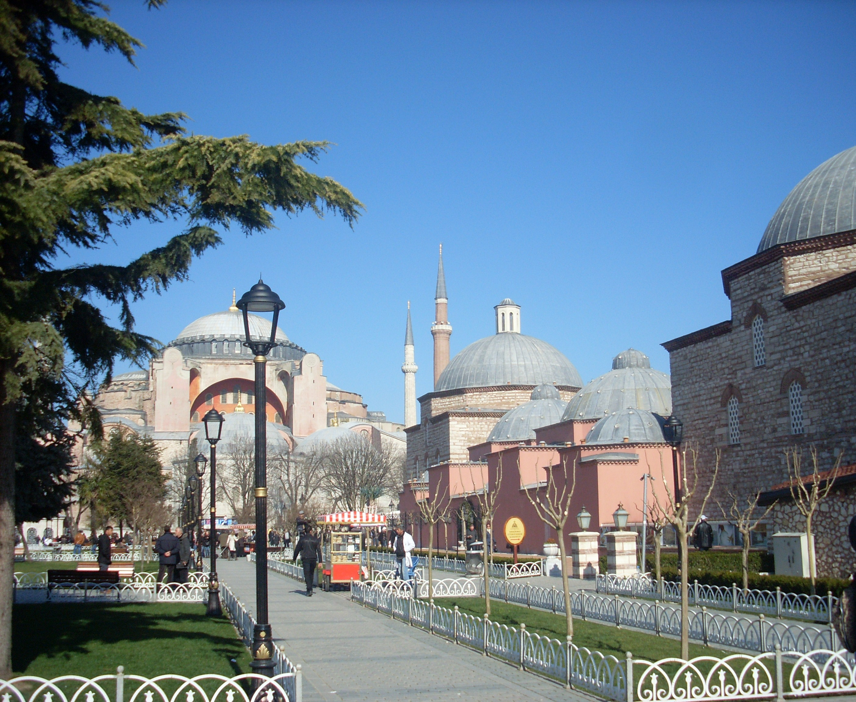 İstanbul - Haseki Hürrem Sultan Hamamı r3 - feb 2013